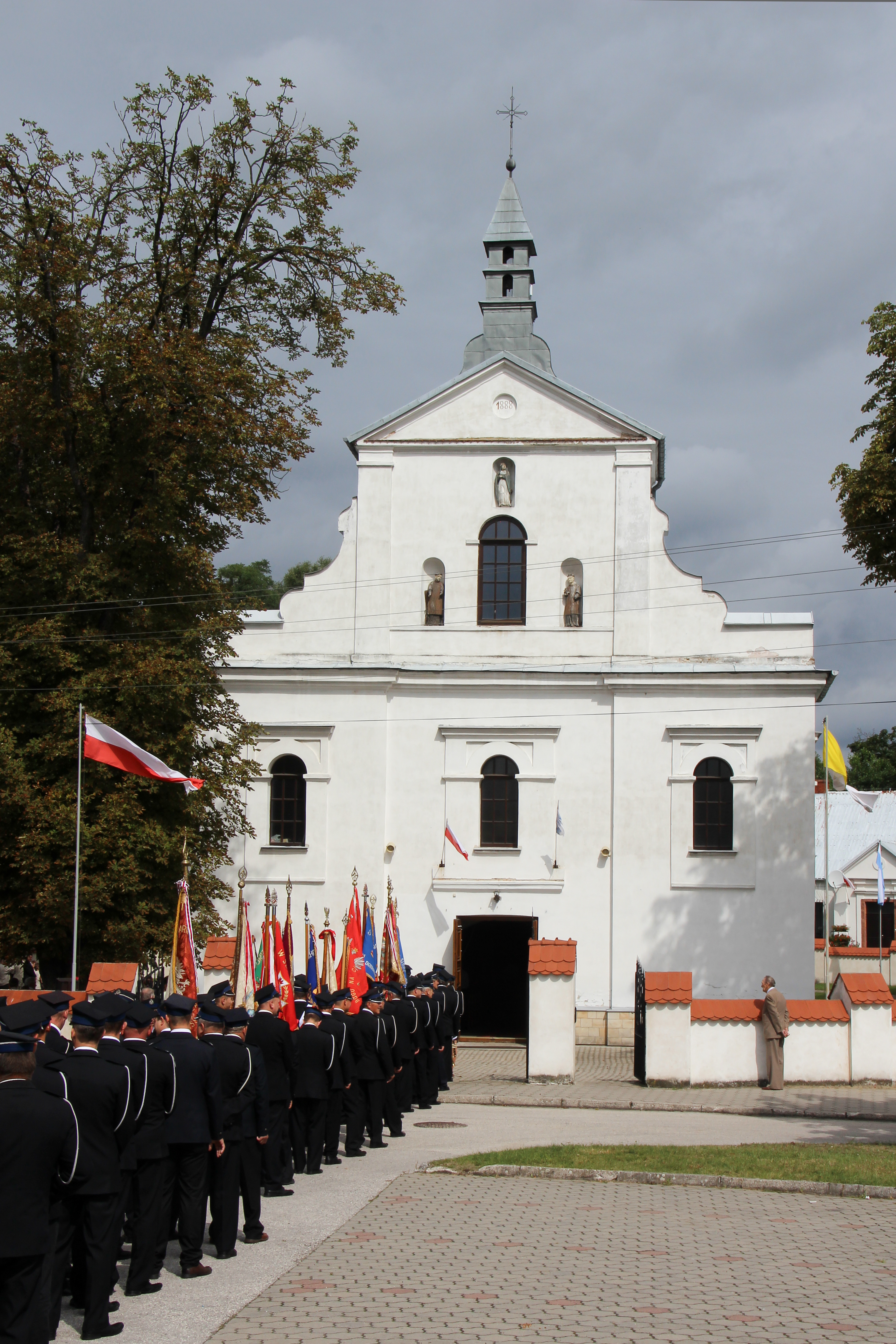 Church in Kluczewsko